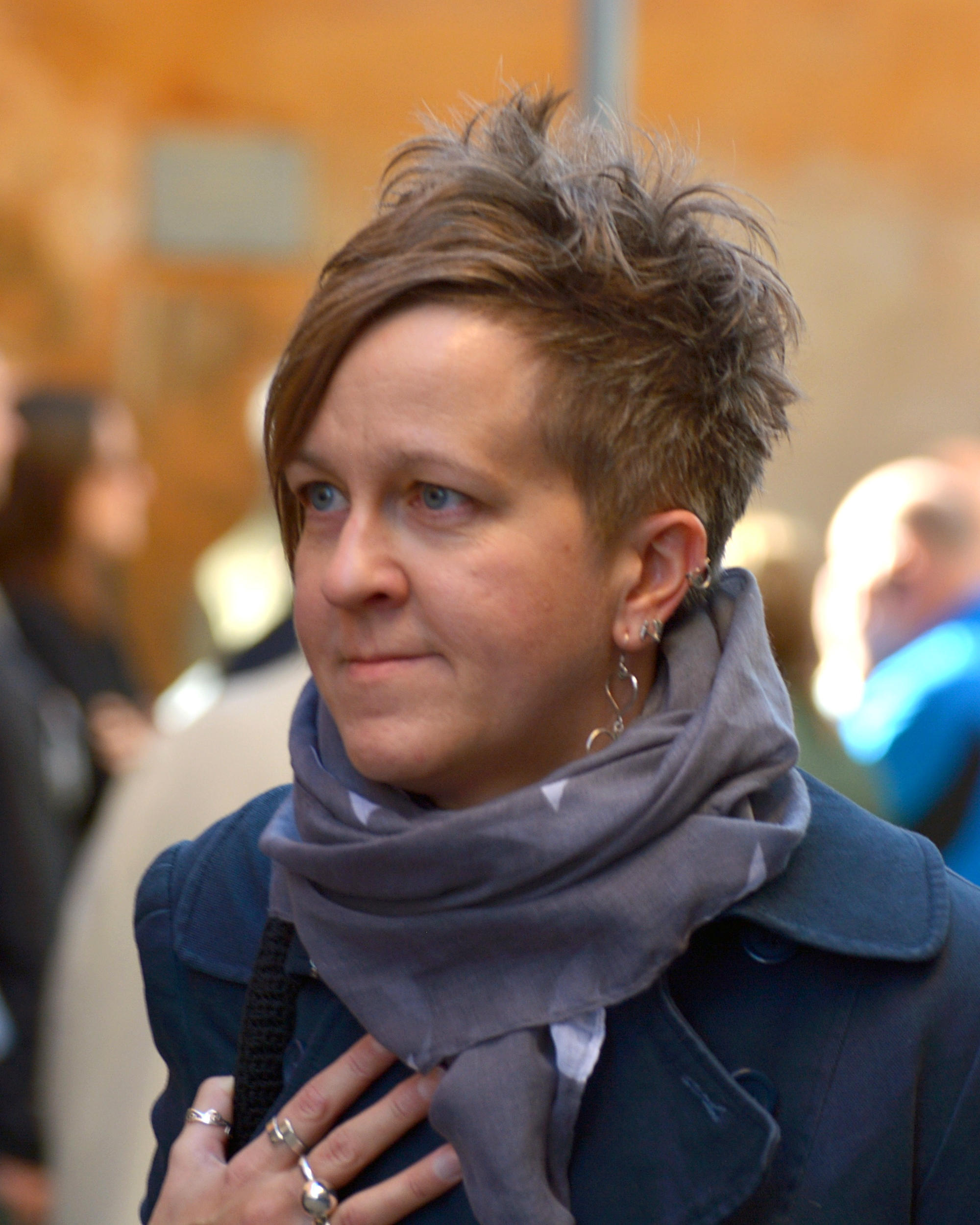 Ulrika Westerlund, General Secretary of Swedish Federation for Lesbian, Gay, Bisexual and Transgender Rights.